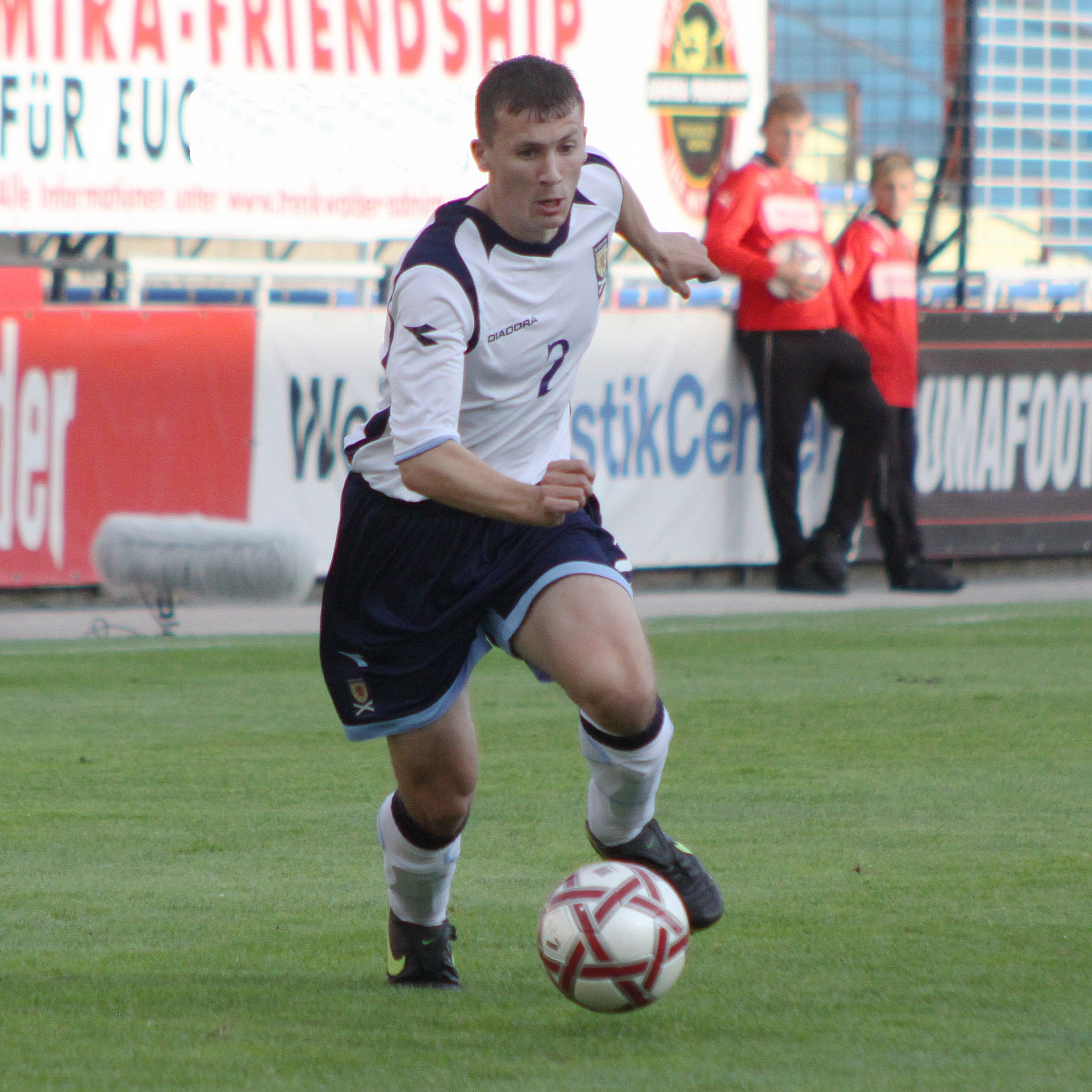 Paul Caddis (Celtic Glasgow) - Schottische Fußballnationalmannschaft (U-21-Männer) Paul Caddis (Celtic F.C.) - Scotland national under-21 football team — (3)